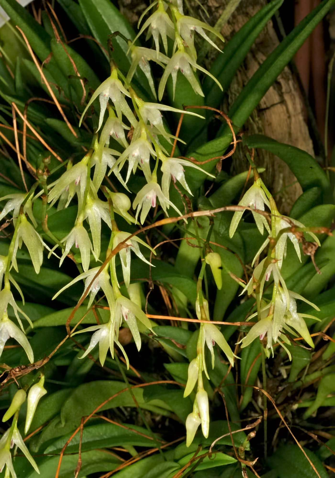 Anathallis linearifolia